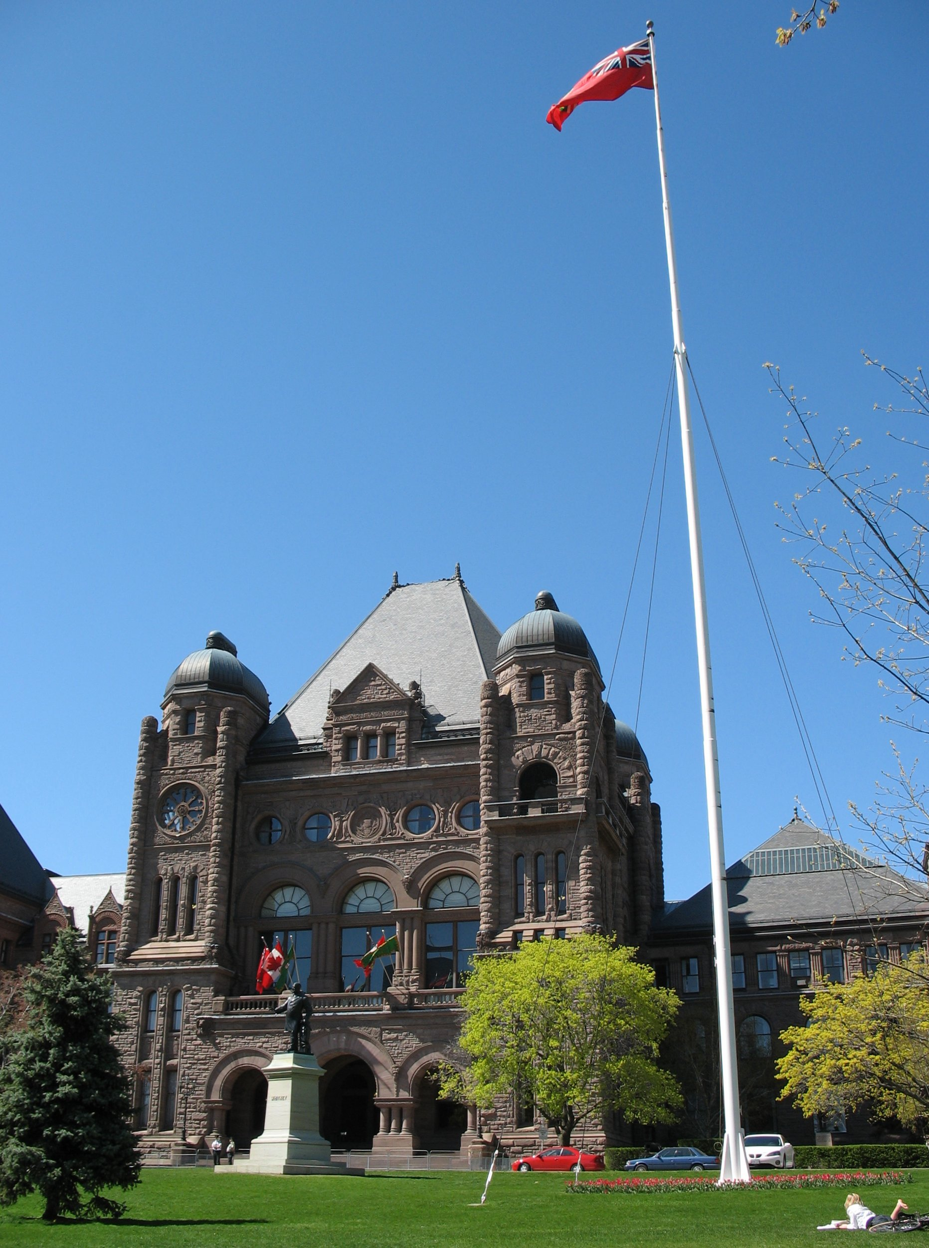 Front view of the Ontario Legislative Assembly in Toronto, with flagpole and woman reading on lawn. Straightened and cropped from digital photograph taken by uploader May 2006.